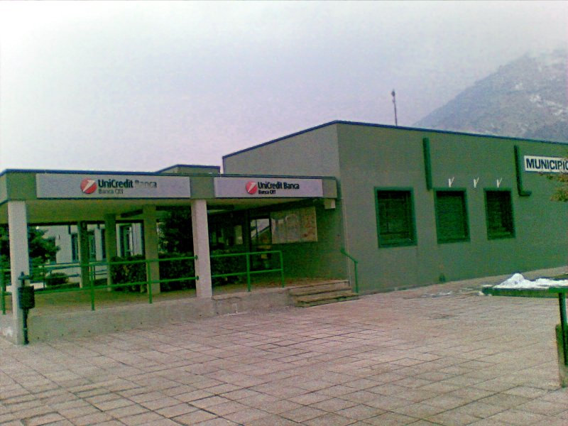 Building of the town hall in Givoletto.